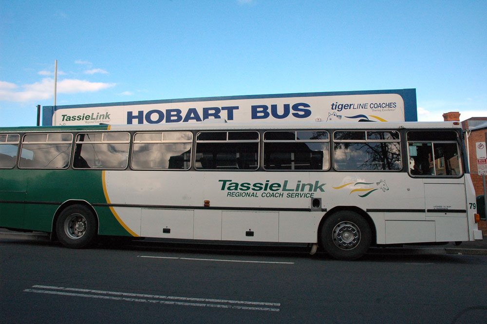 Tigerline Coach Terminal, Hobart, Tasmania.